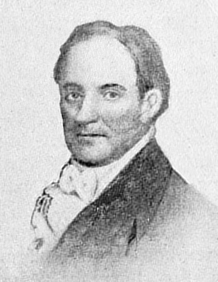 Chauncey Langdon, U.S. Congressman from Vermont